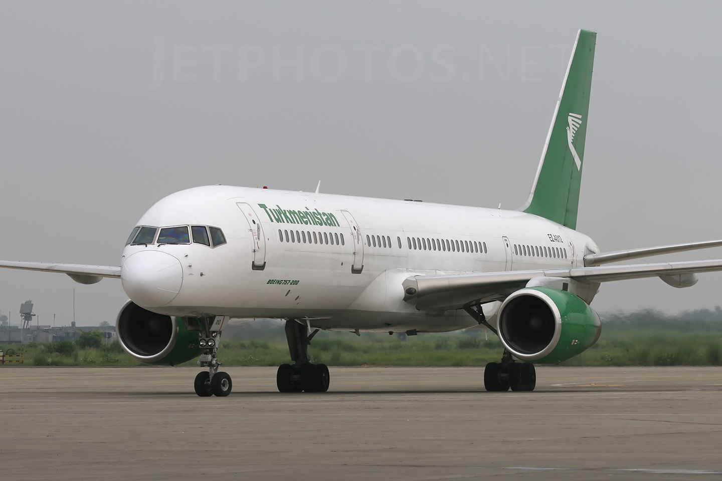 Turkmenistan Airlines Boeing 757-200 registered EZ-A012 at Sri Guru Ram Dass Jee International Airport, Amritsar, India.